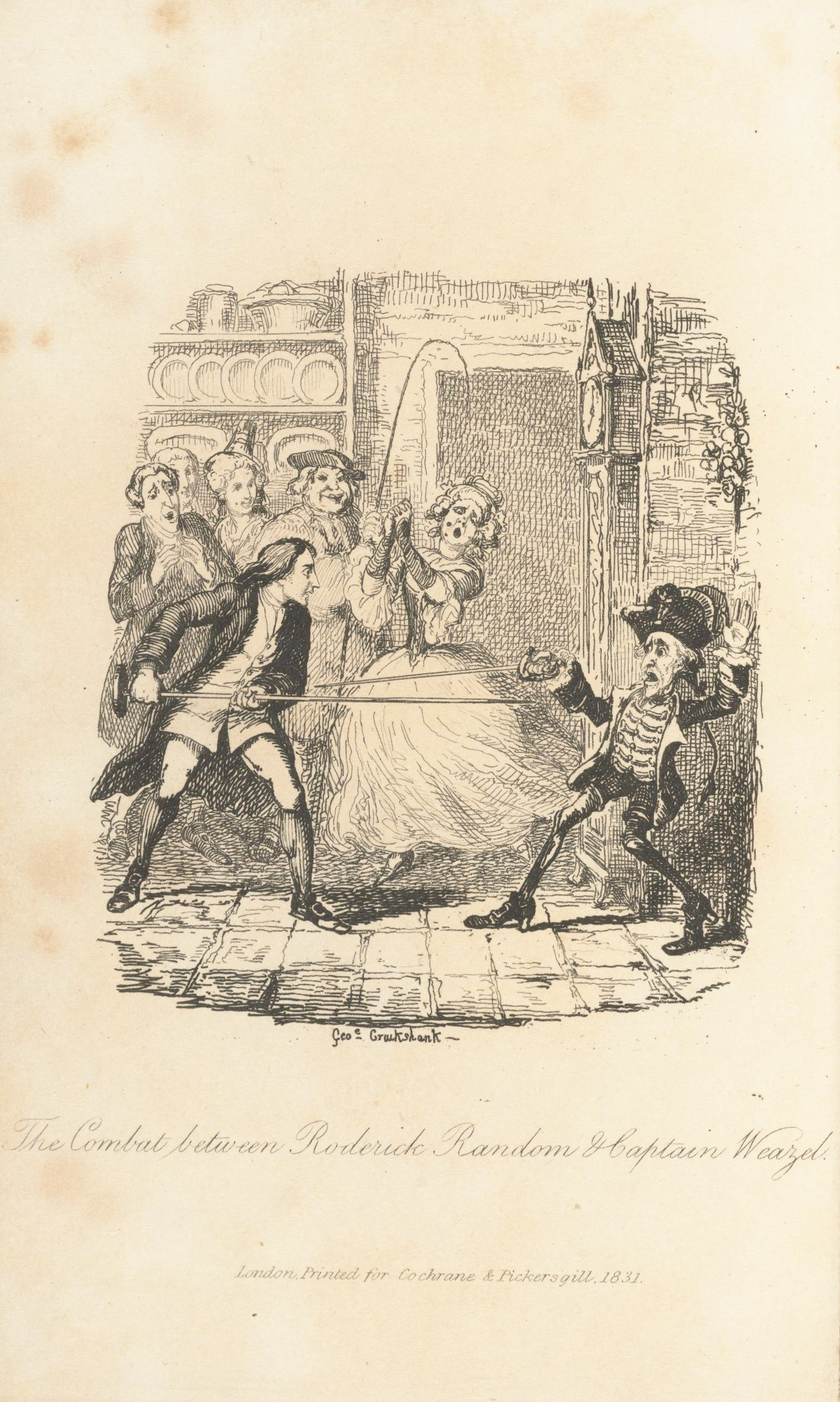 Illustration by George Cruikshank (1792-1878) for The Adventures of Roderick Random, 1831, by Tobias Smollett Smollett, (1721-1771). *AC85.J2335.Zz831s2, Houghton Library, Harvard University